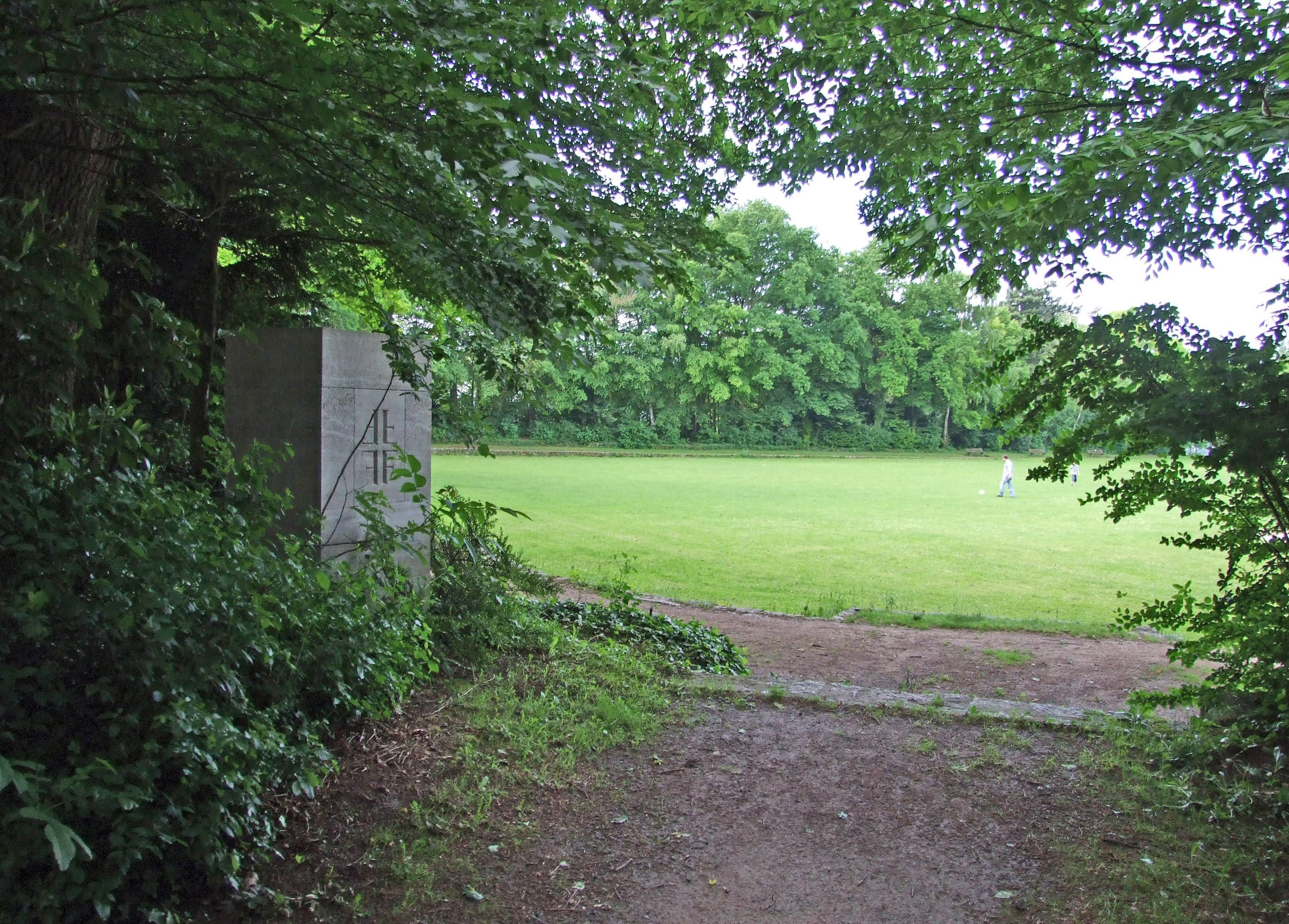 Friedrich Ludwig Jahn Memorial on the hill Lohrberg overlooking competition area of annual athletics event Lohrbergfest in Frankfurt, Hesse, Germany